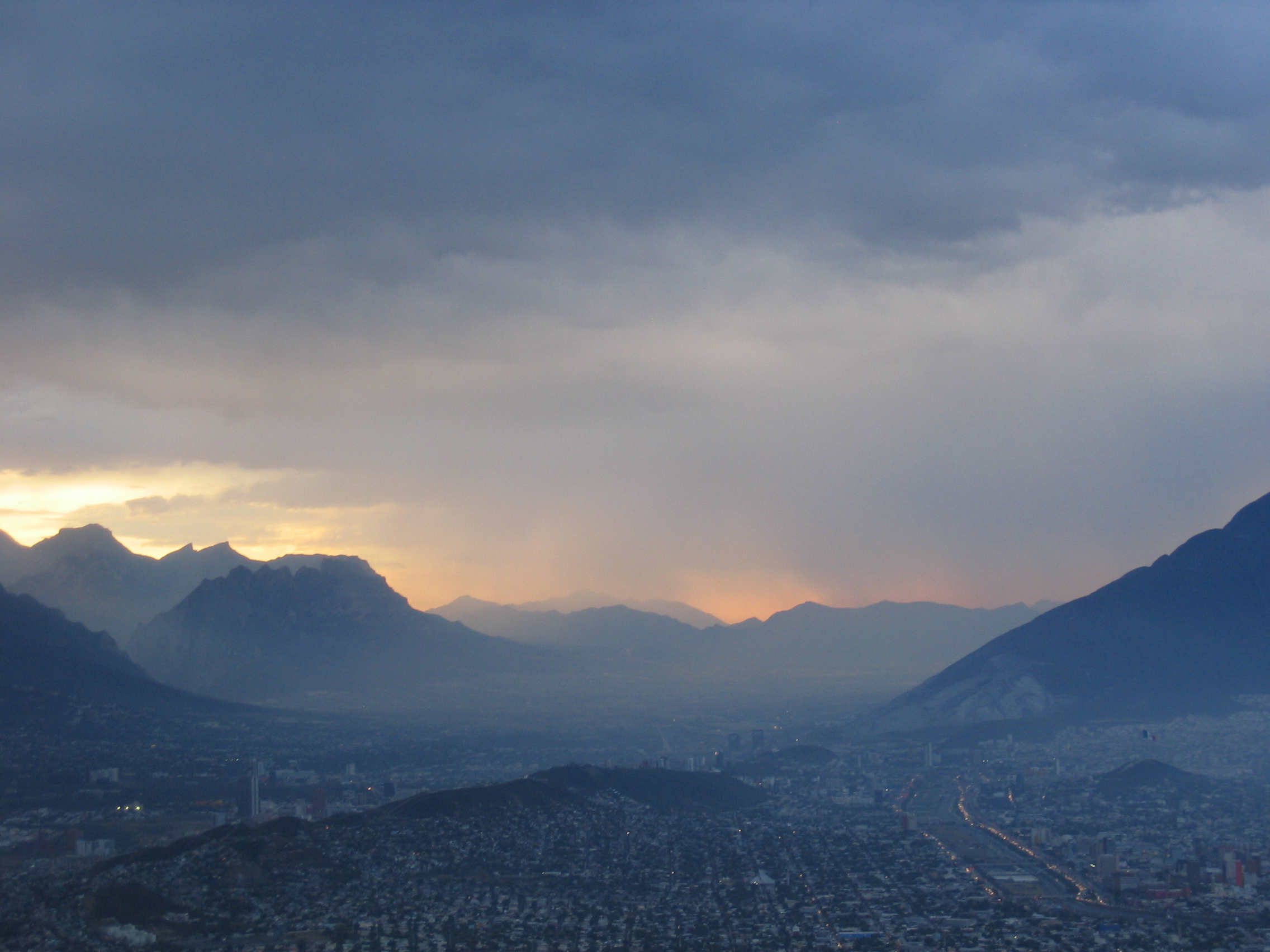 The city of Monterrey, Mexico from a hill neraby.